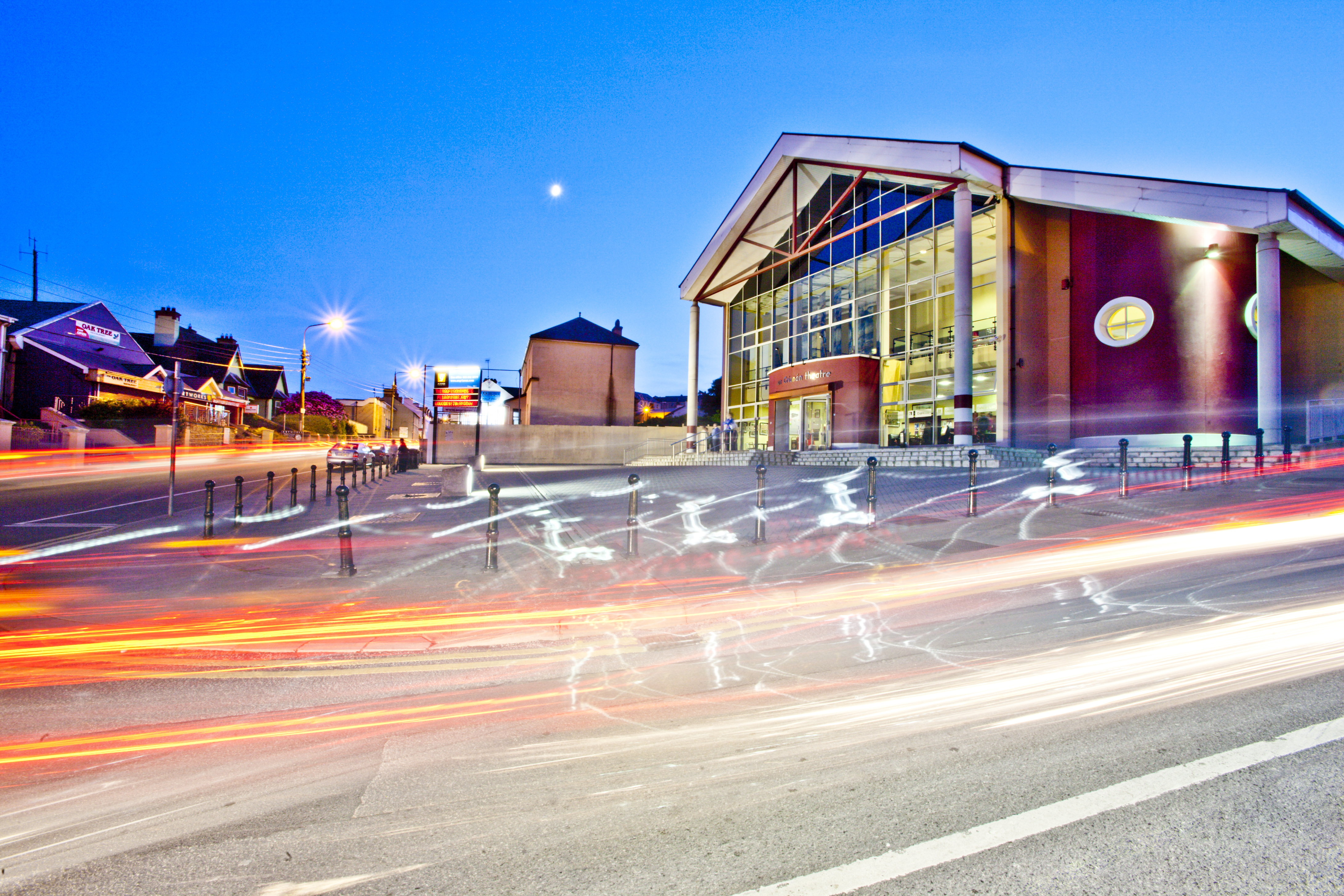 An Grianán Theatre from Letterkenny, Ireland